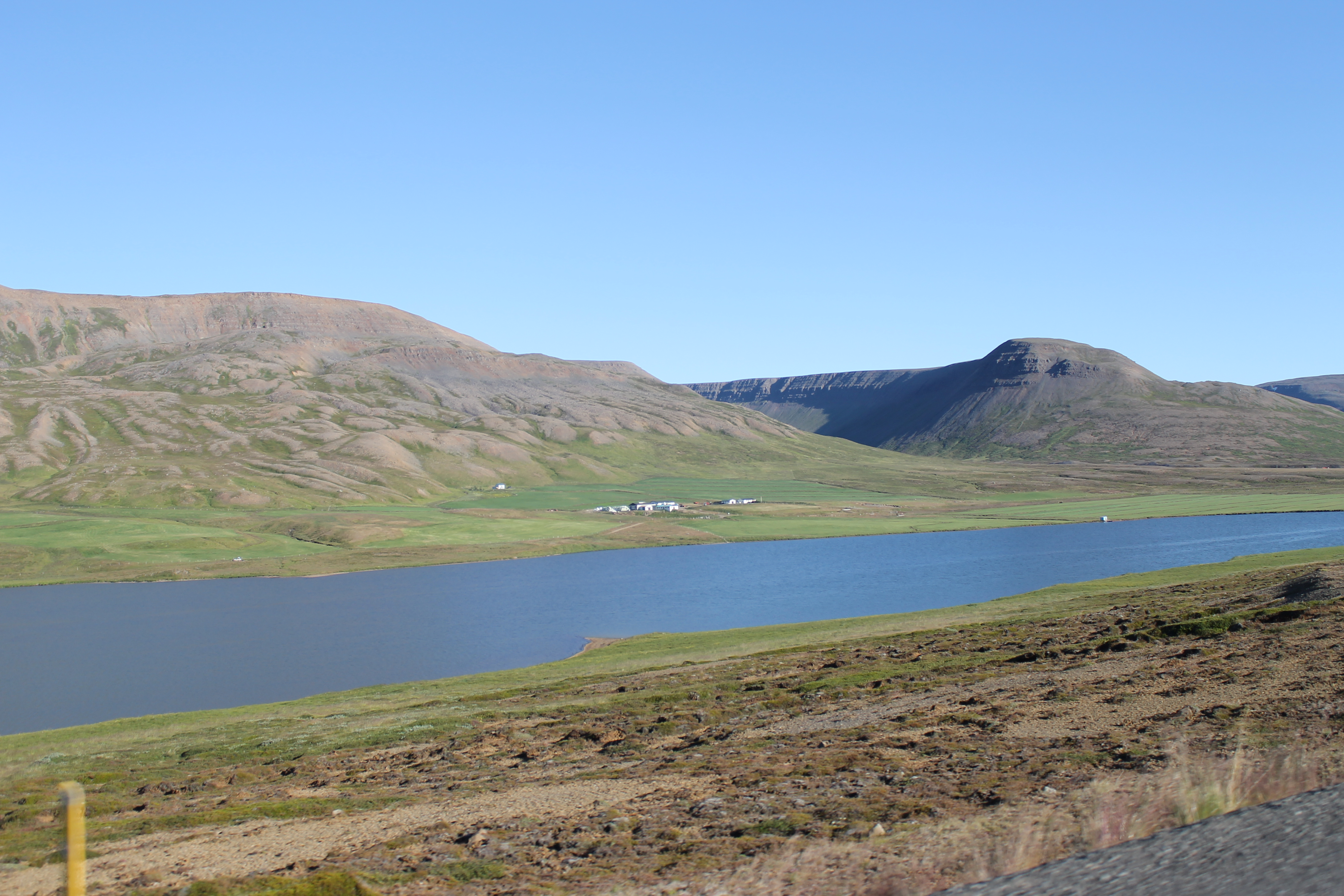 Lake Sléttuhlíðarvatn, Skagafjörður, Northern Iceland.